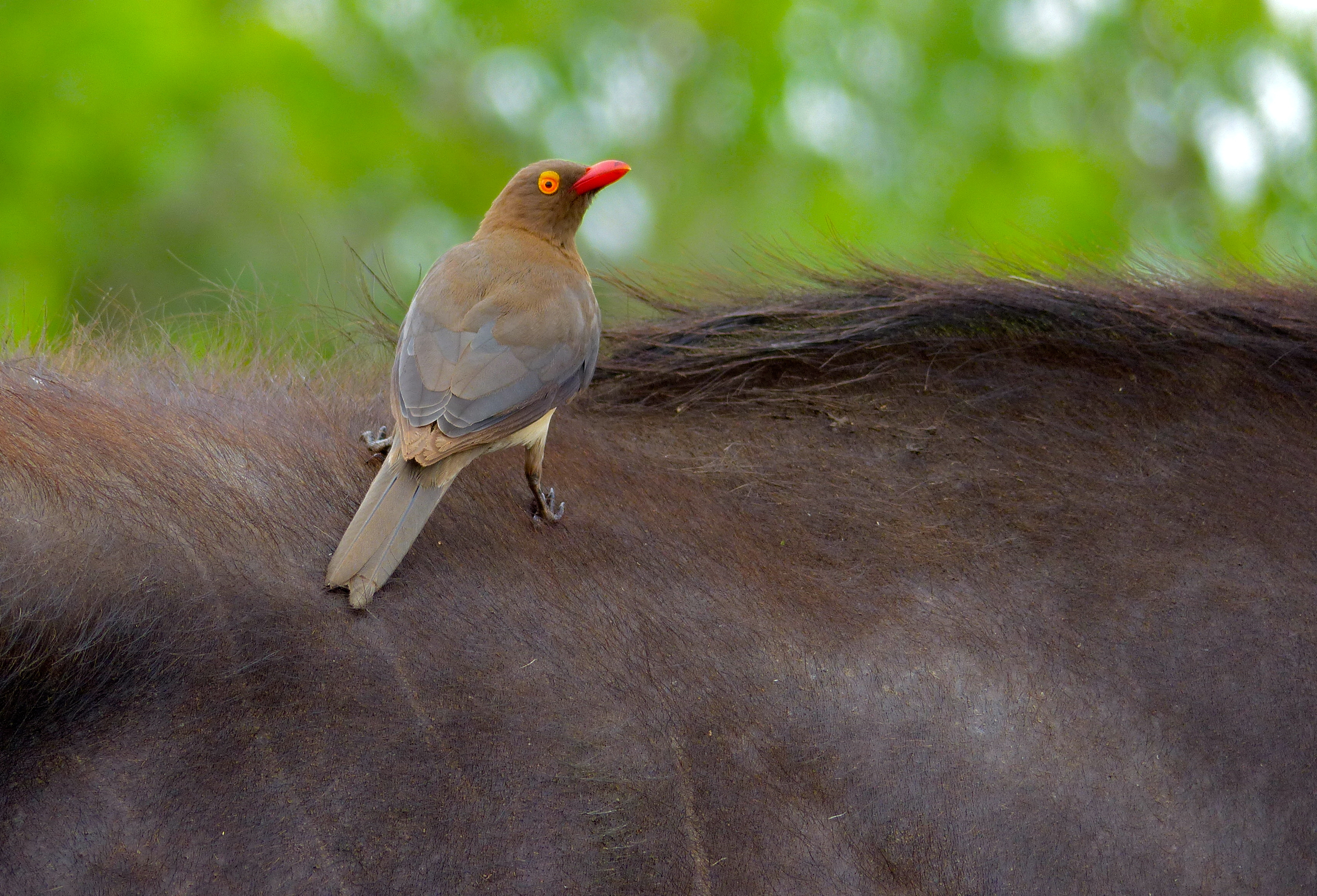 S28 Road South of Lower Sabie, Kruger NP, SOUTH AFRICA